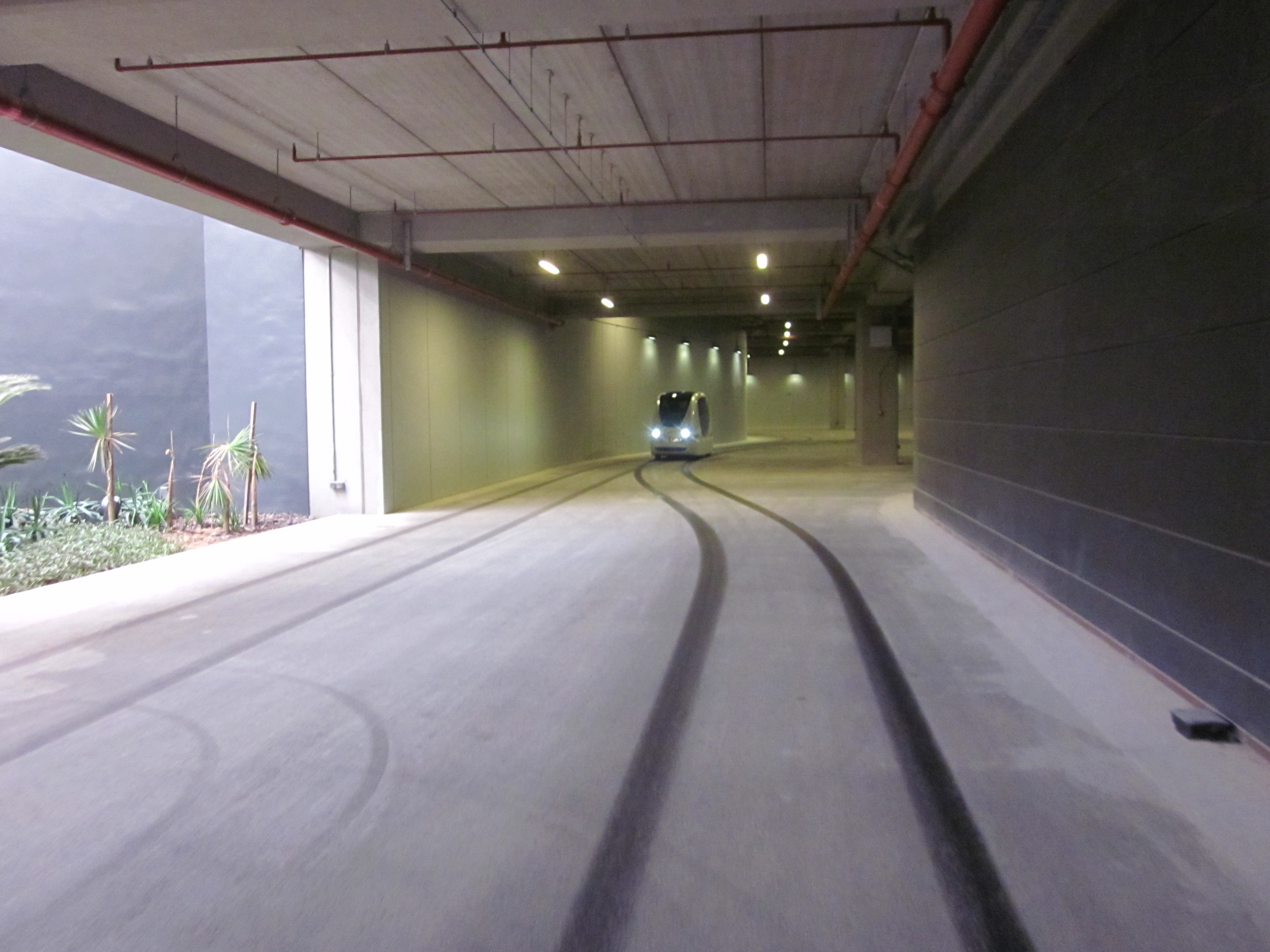 Masdar personal rapid transit podcar running underground in Masdar City, Abu Dhabi, United Arab Emirates